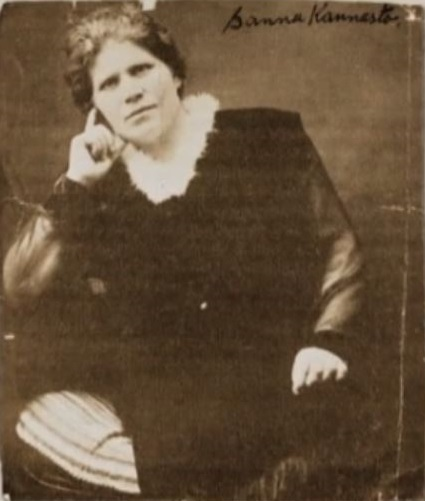 Finnish Canadian labour organizer and feminist Sanna Kannasto (1878-1968) in the 1920s.